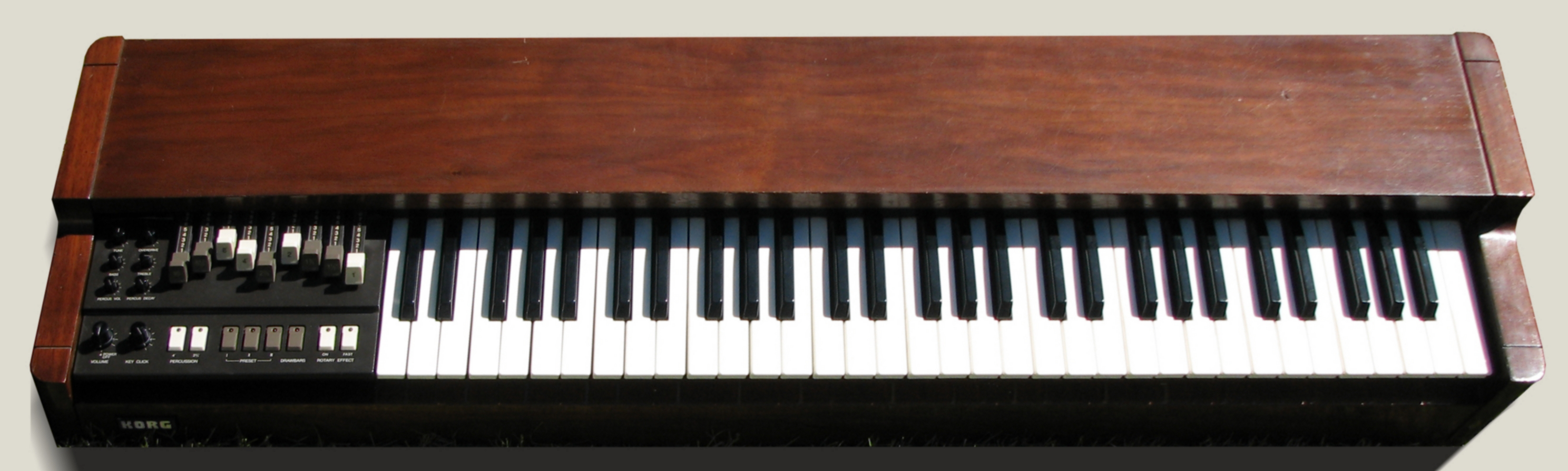 KORG CX-3 drawbar organ (1980) uploaded using Flickr upload bot from spaztacular@Flickr